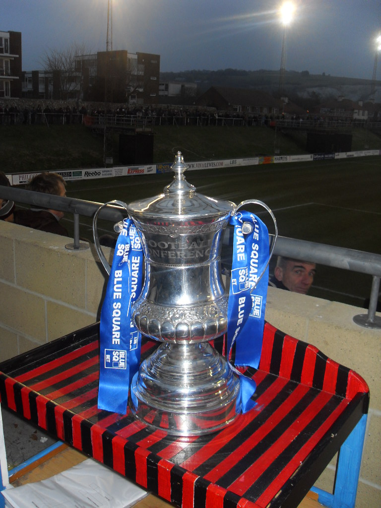 Conference South Trophy, taken at Lewes at The Dripping Pan.